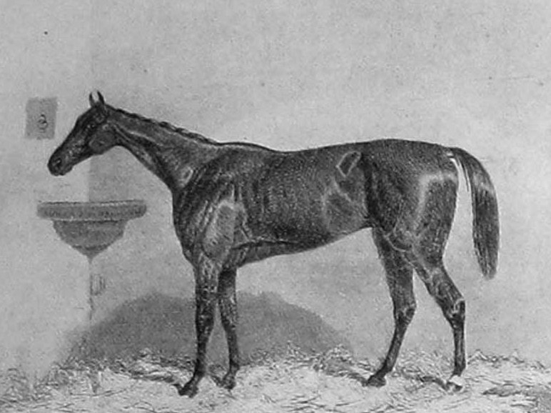 Virago, British racehorse. Engraving appeared in Baily's Magazine 1854. From painting by Harry Hall (1814-1882). Artist has been dead for 130 years.